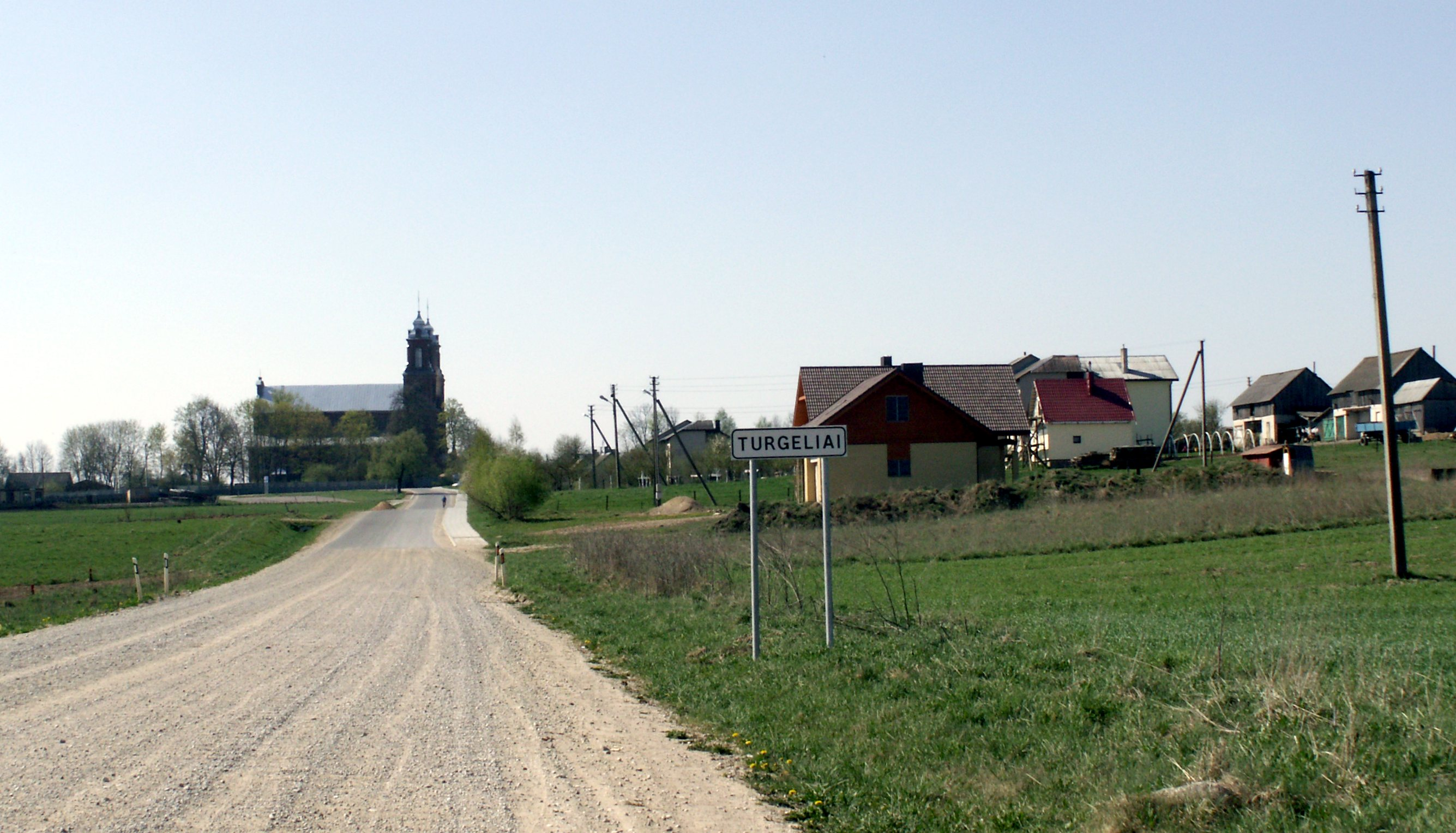 Turgeliai, Šalčininkai district, Lithuania